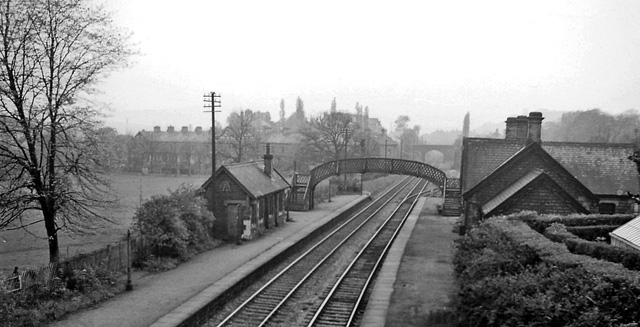 Baildon Station. SW view towards Shipley and Bradford; Bradford - Shipley - Guiseley - Ilkley line. The station was closed 5/1/53, reopened briefly 28/1 - 29/4/57, then from 5/1/73 until 25/7/92, when it was closed again briefly for electrification and reopened finally 8/9/92. Therefore when I took this photograph the station must have been closed, but it does not look like it: the line remained open anyway.